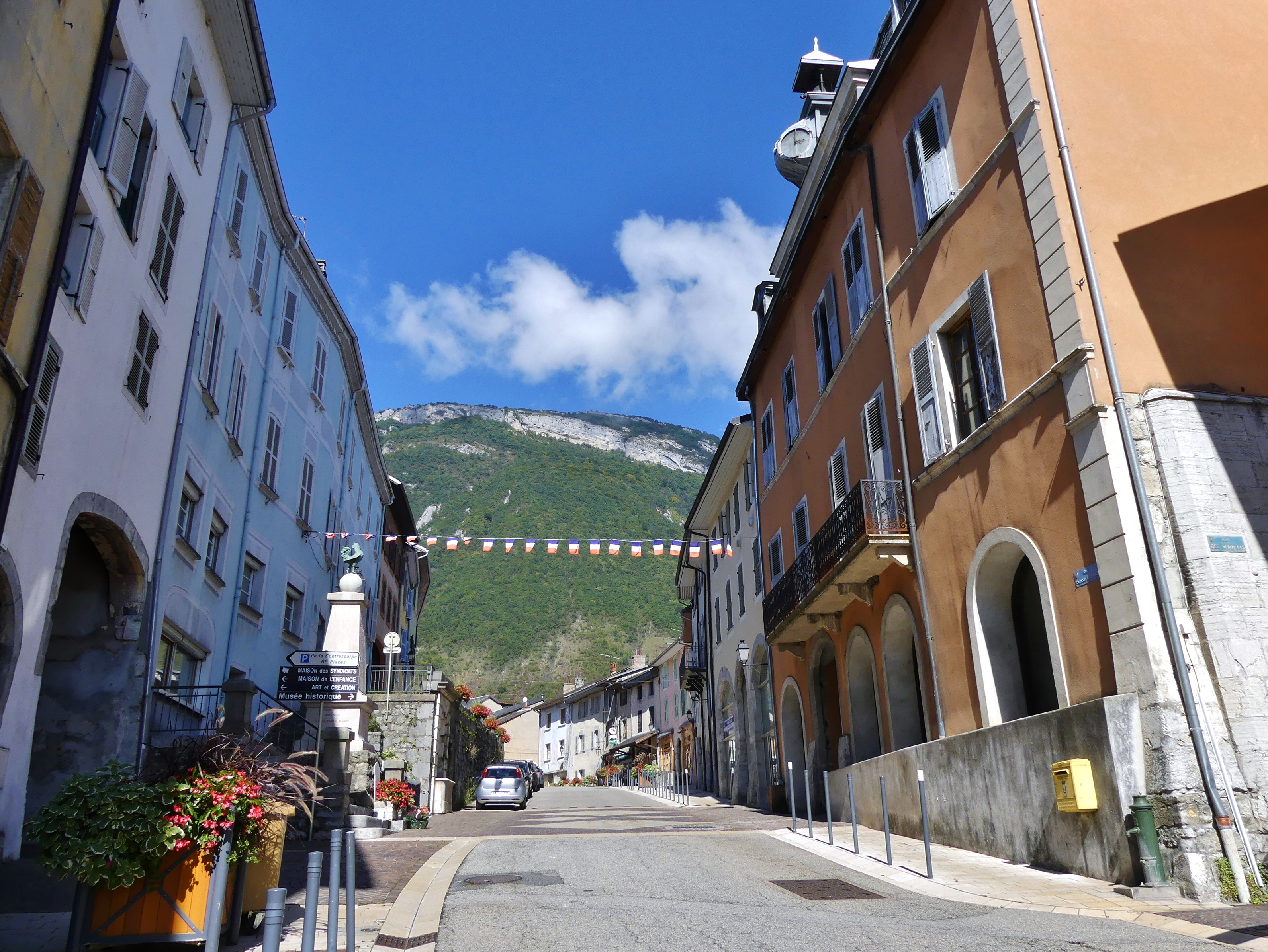 Sight of the historical center of Montmélian, with visible on the right the former city hall called Hôtel Nicolle de La Place, in Savoie, France.